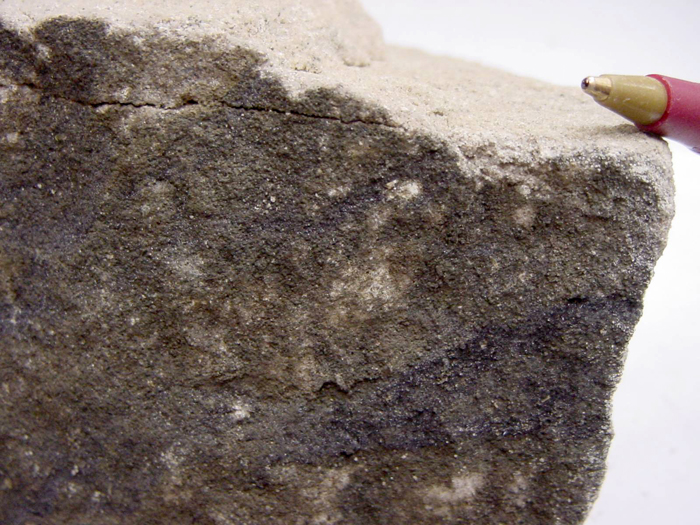 Selenium (native). Pen for scale. Mineral collection of Brigham Young University Department of Geology, Provo, Utah. Photograph by Andrew Silver. BYU index 1-3001a, Se.